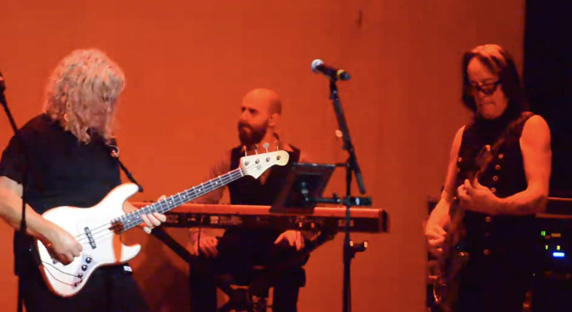 Jason Scheff & Todd Rundgren